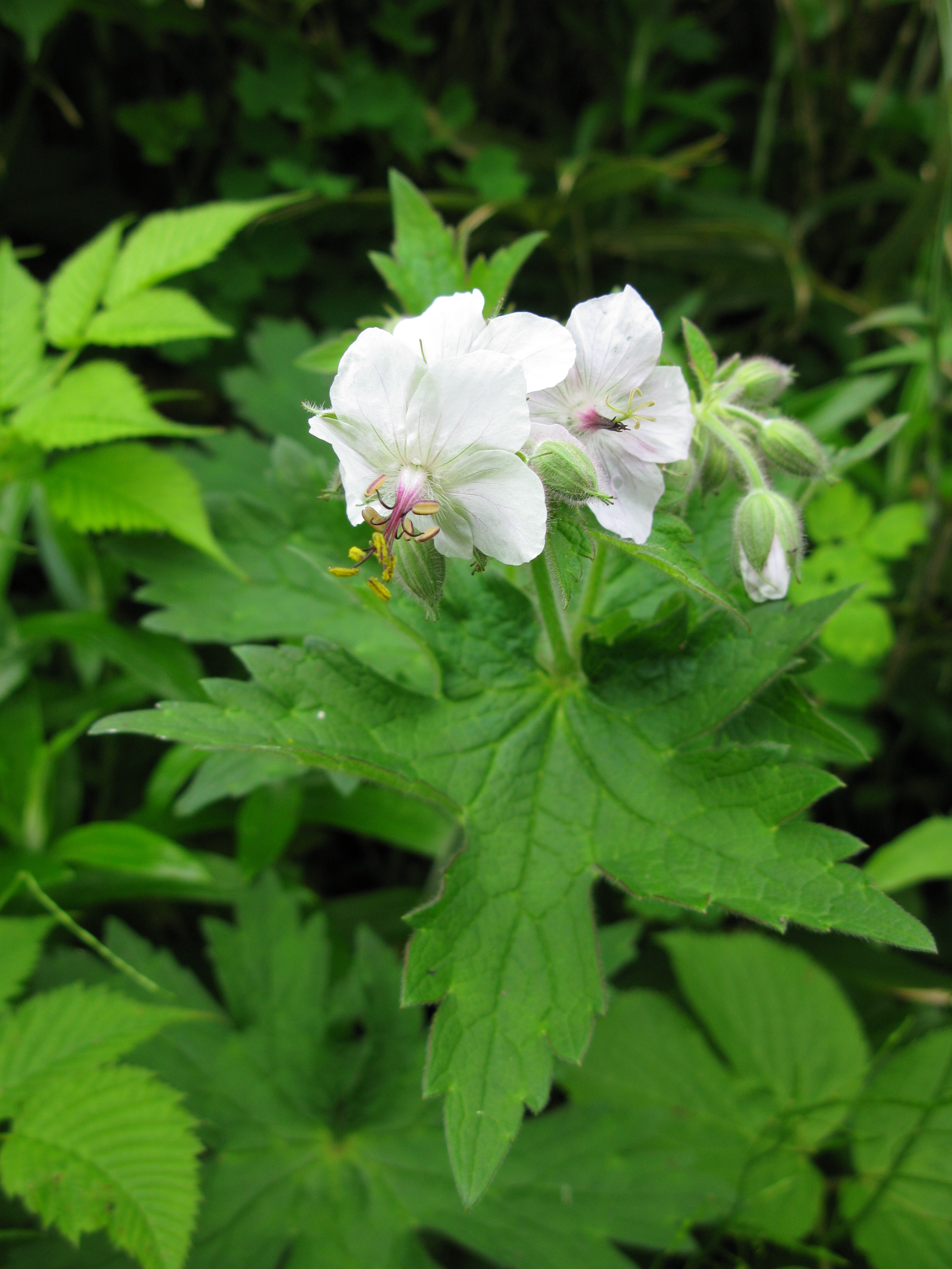 Geranium eriostemon var. reinii, Mt. Bandaisan, Fukushima pref., Japan